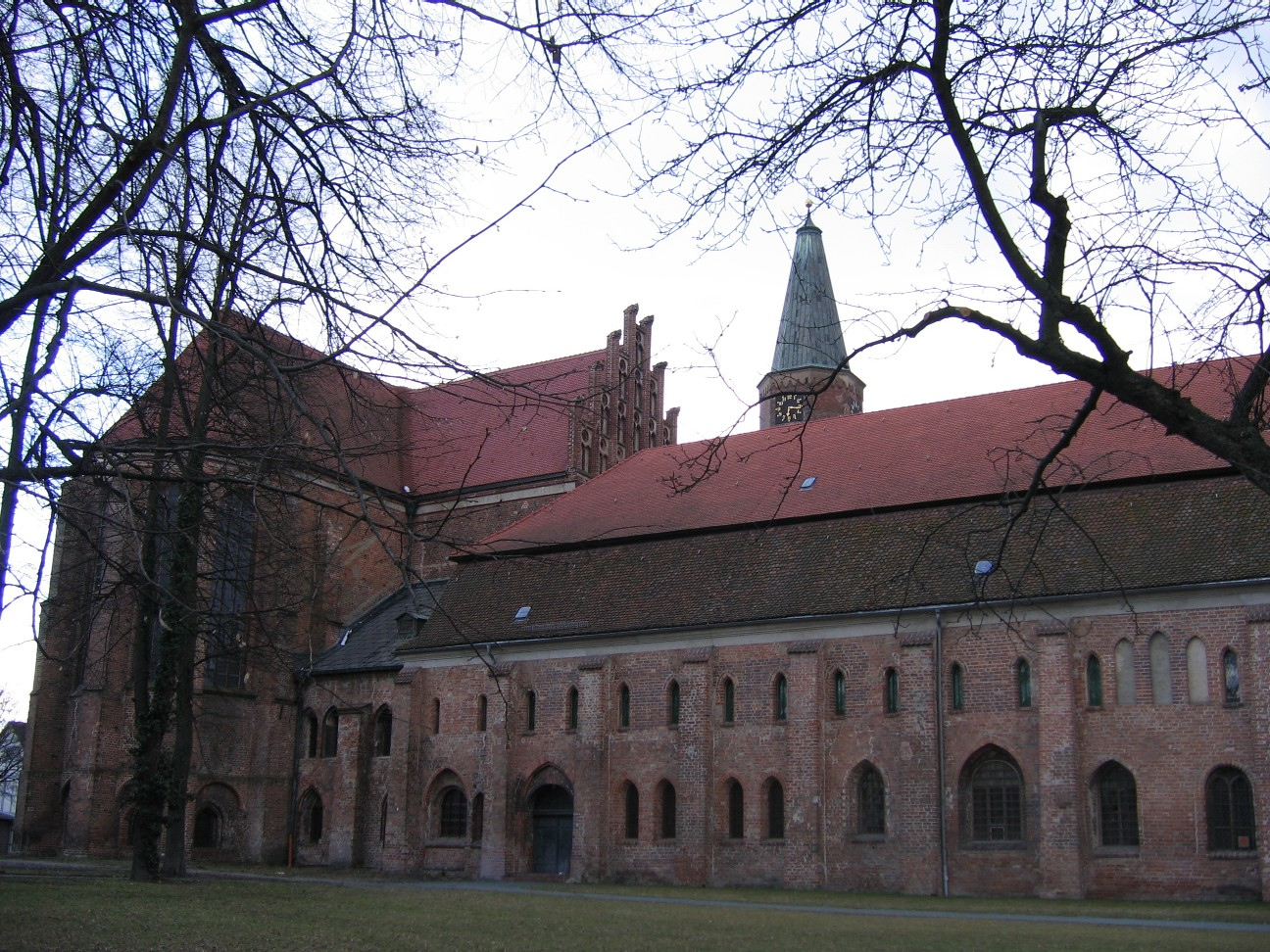 Description: Dom of Brandenburg an der Havel Source: Own work Date: 04 April 2006 Author: User:Martinum